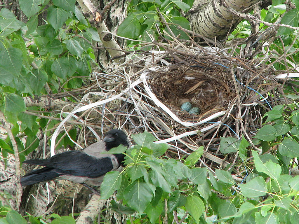 Crow's (Corvus cornix) nest with eggs